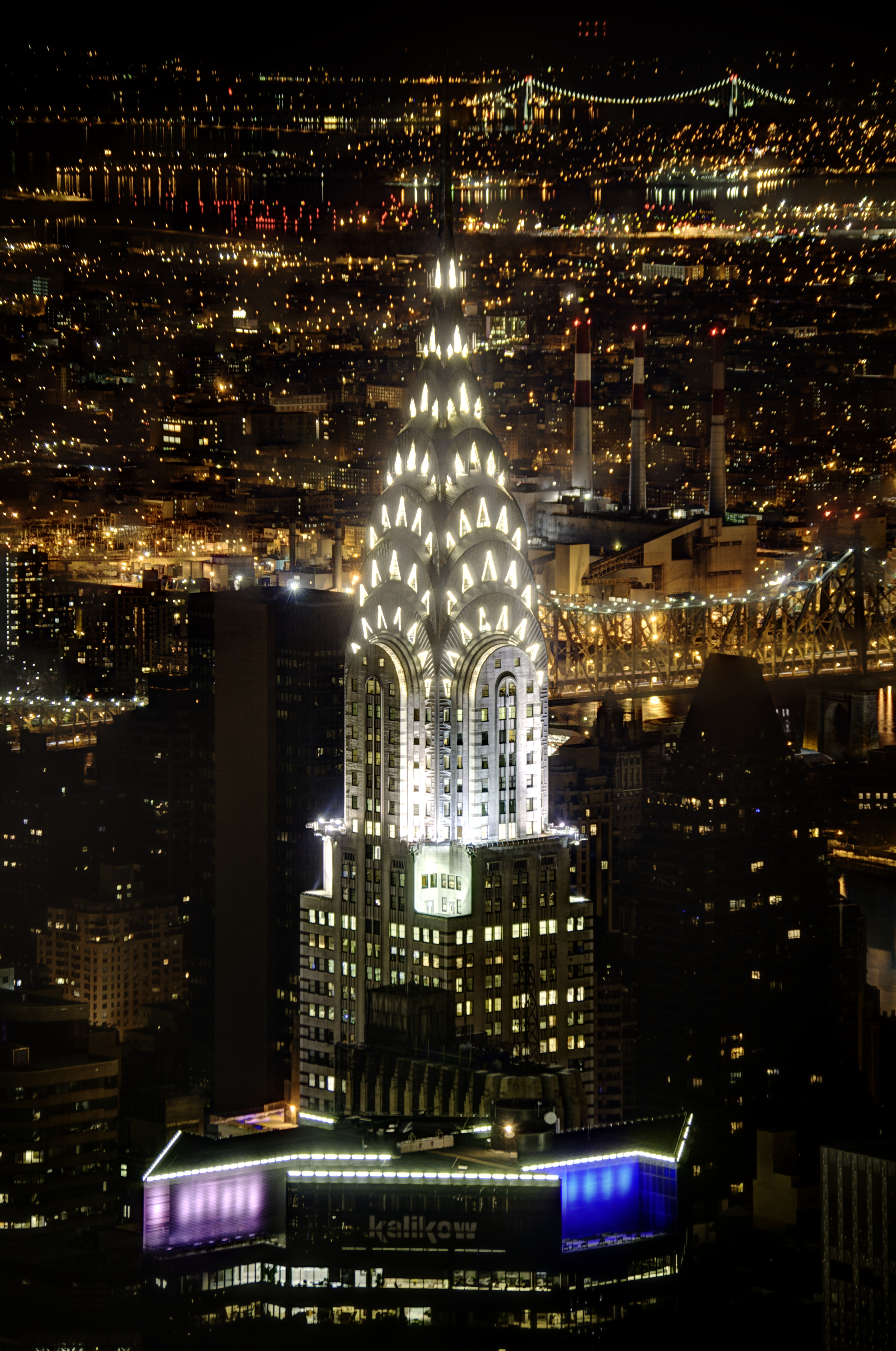 Chrysler Building at night from Empire State Building